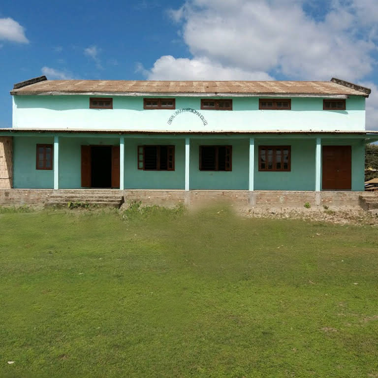 Central Library of Hatsingimai College.